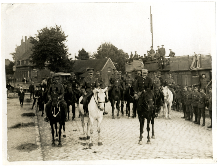 Military police in France [near Merville].